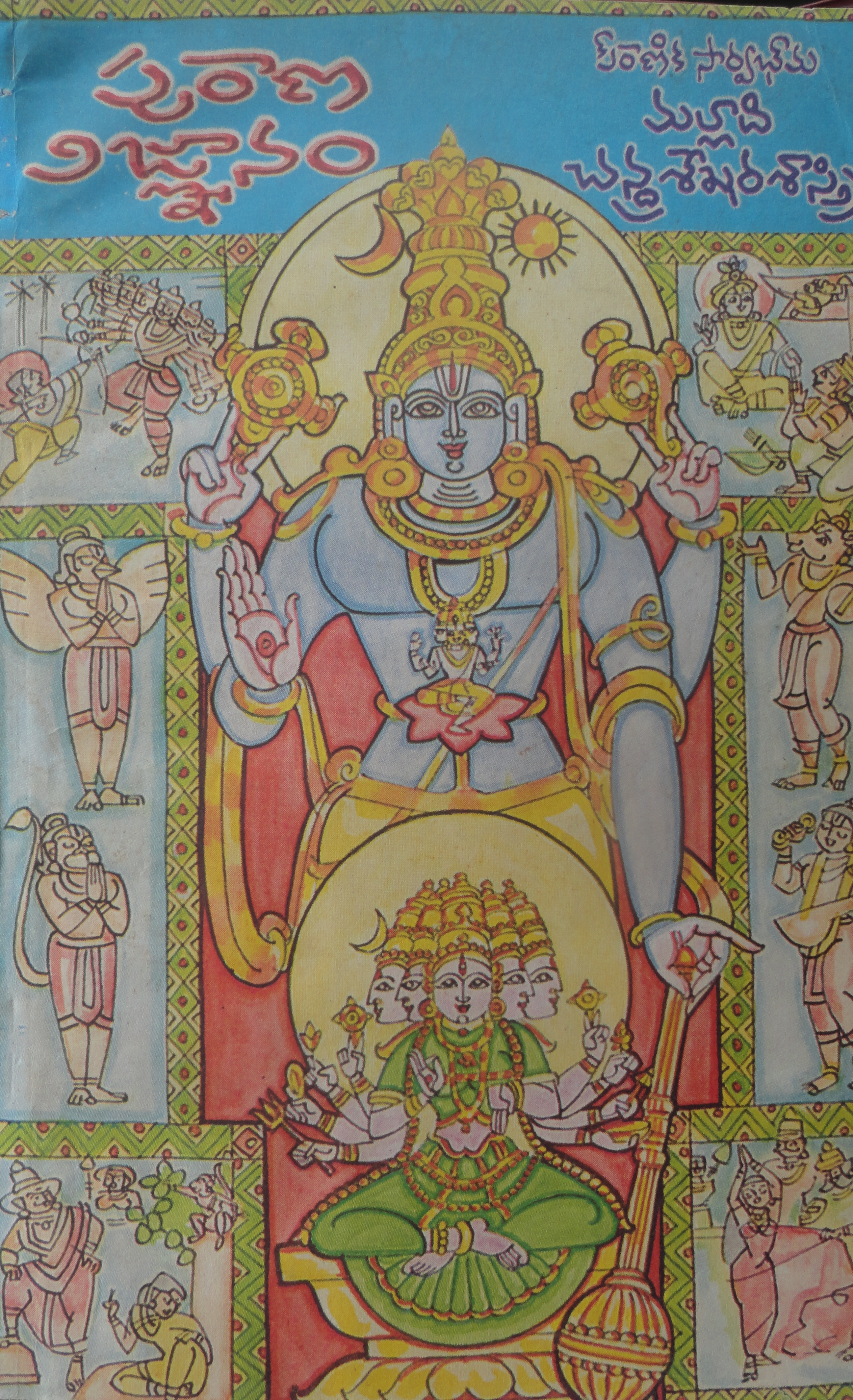 Puraana vignaanamu (book)